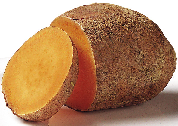 sweet potato National Cancer Institute's 5 A Day Resources & Tools.